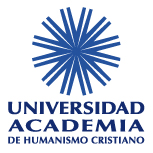 logo of uahc